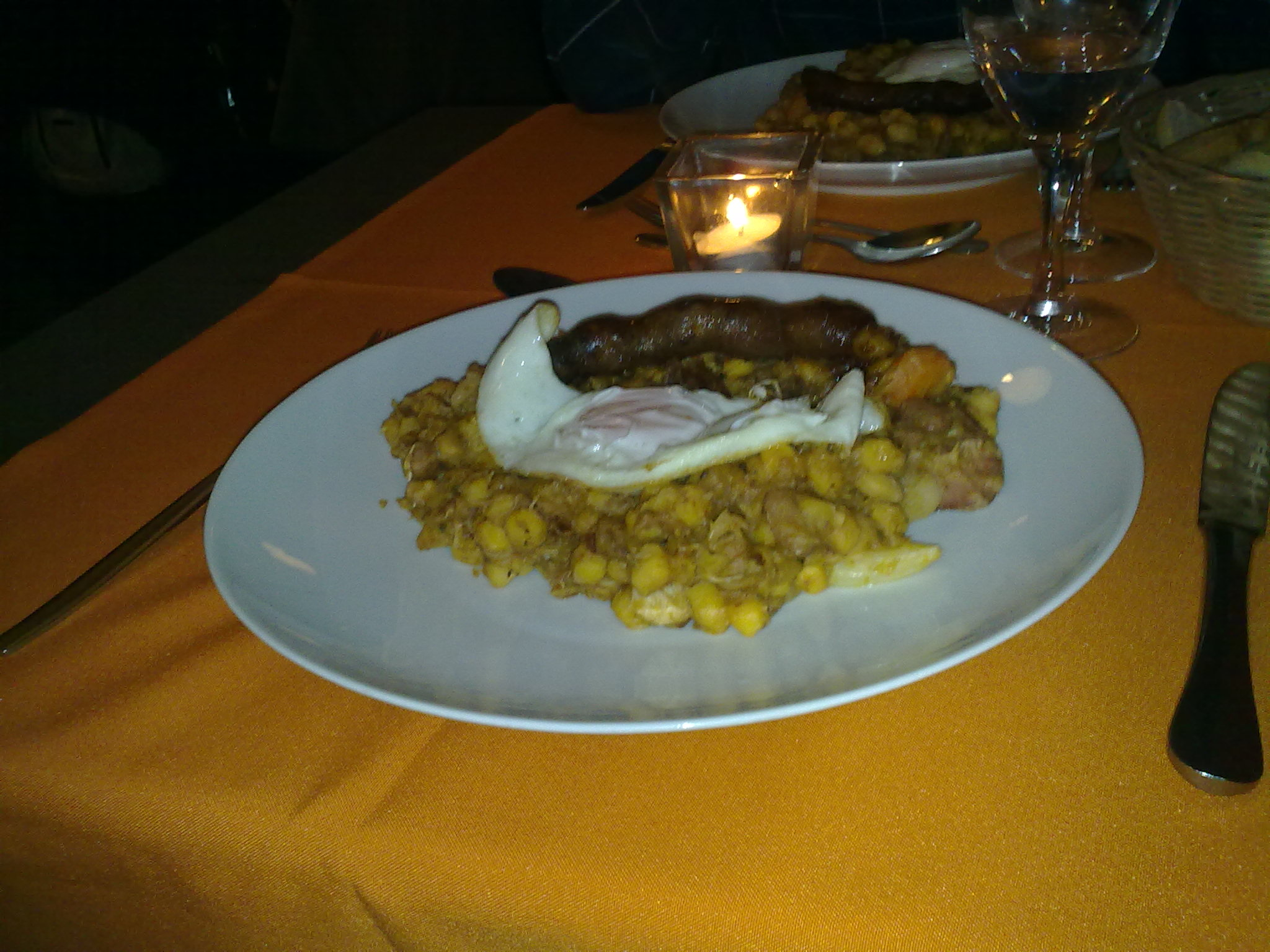 "Cachupa frita" (fried "Cachupa"), a dish from Cape Verde.